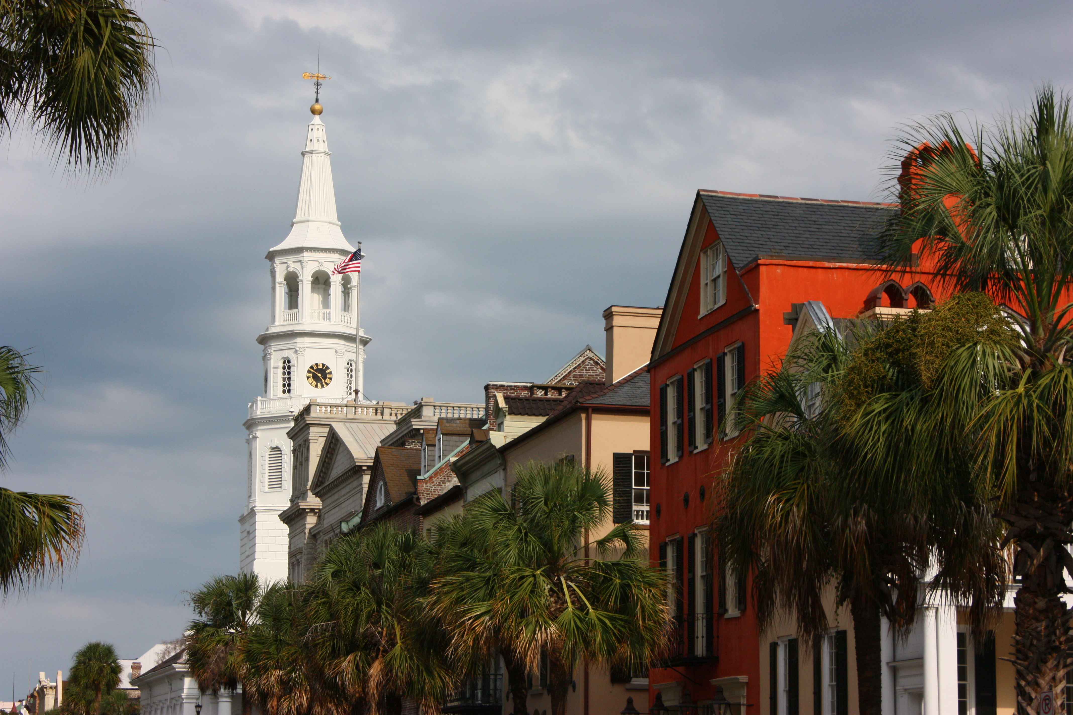 Broad Street, Charleston SC